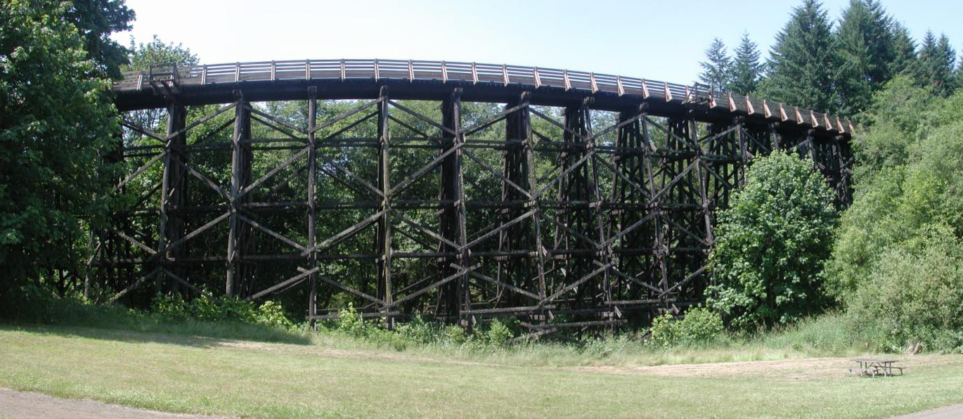 Panorama of Buxton Trestle on the Banks-Vernonia State Trail in the U.S. state of Oregon Originally three horizontal images. This panoramic image was created with Autostitch (stitched images may differ from reality).